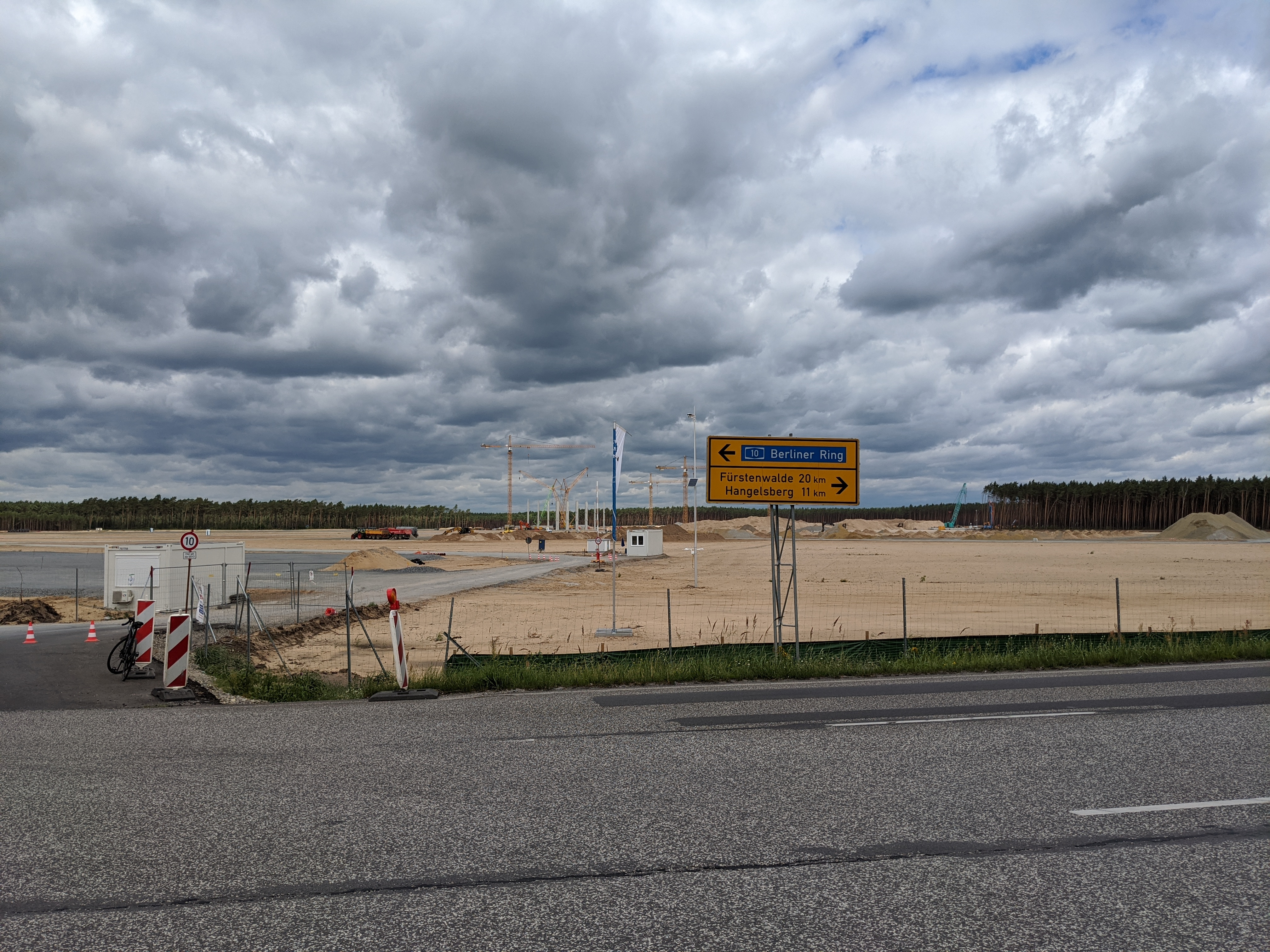 Southern access to the construction site of the Tesla Gigafactory Berlin-Brandenburg as seen from Tesla-Straße in July 2020